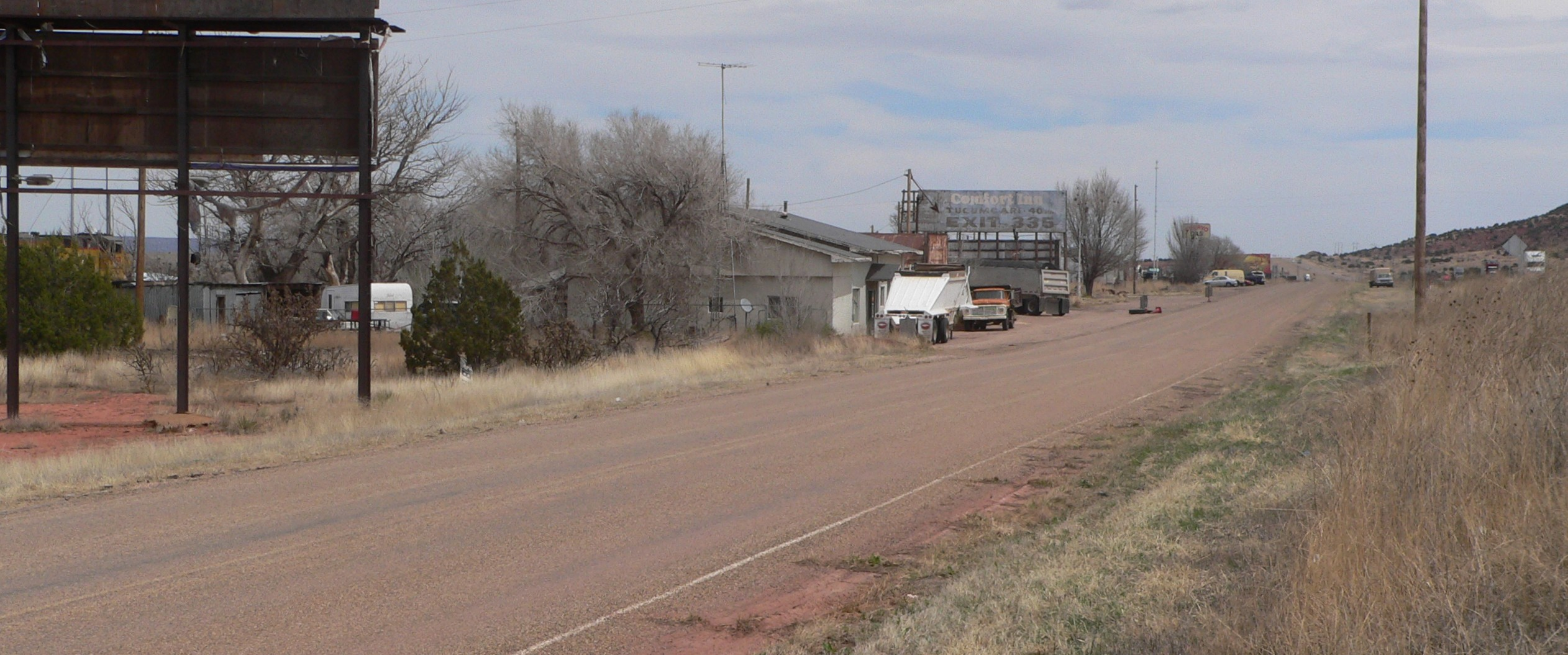 Route 66, now frontage road running parallel to along north side of Interstate 40, at Cuervo, New Mexico. Camera is facing generally eastward.